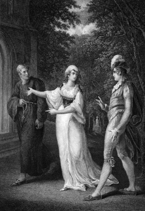 Scene from the play "Twelfth Night" by William Shakespeare: Olivia, Sebastian and a priest